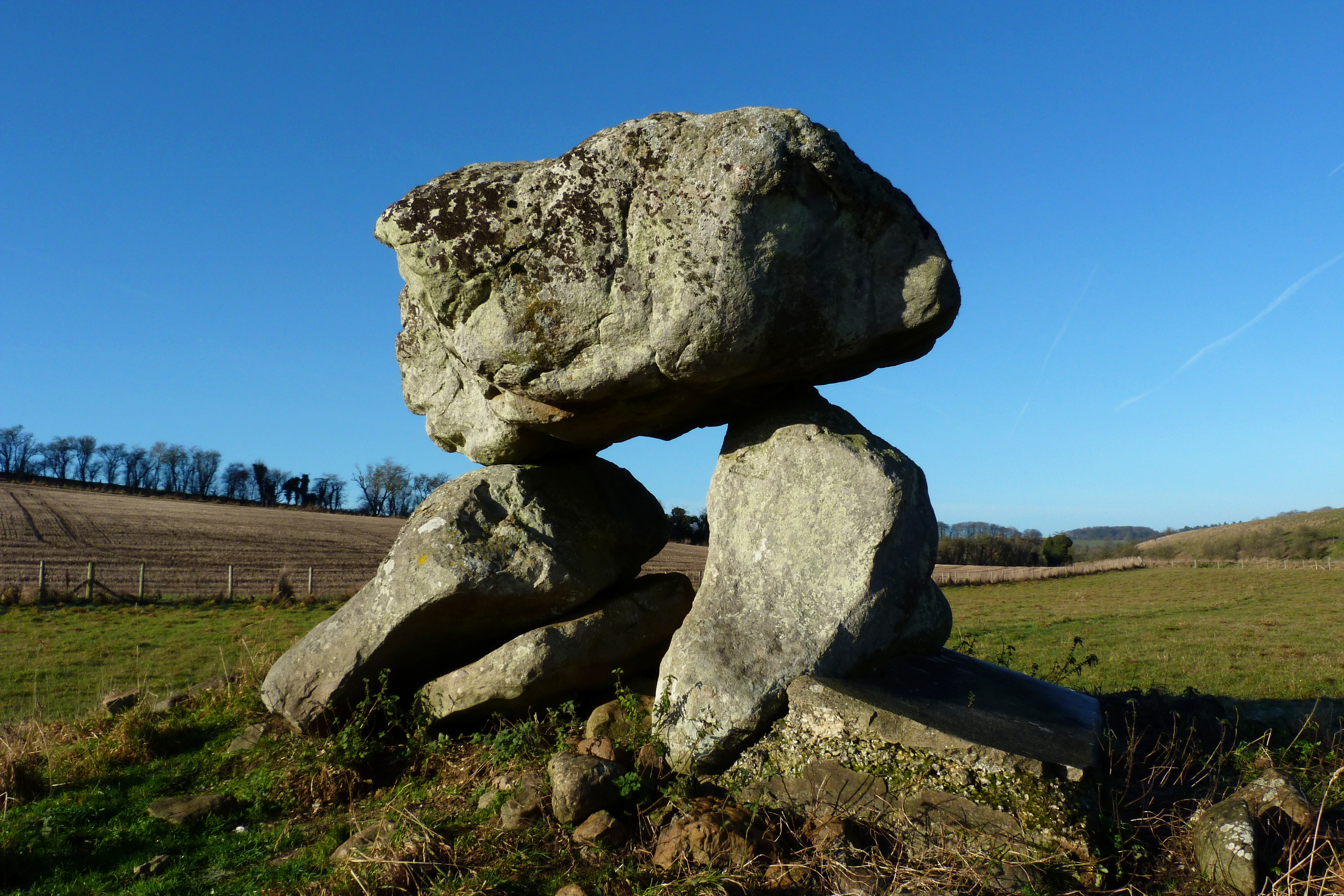 Reconstructed Neolithic burial chamber in Clatford Bottom, Wiltshire. This view is from the south-east.